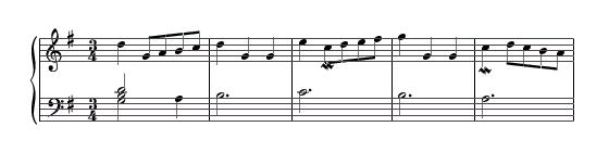 Menuet, BWV Anh. 114 (by Christian Petzold)